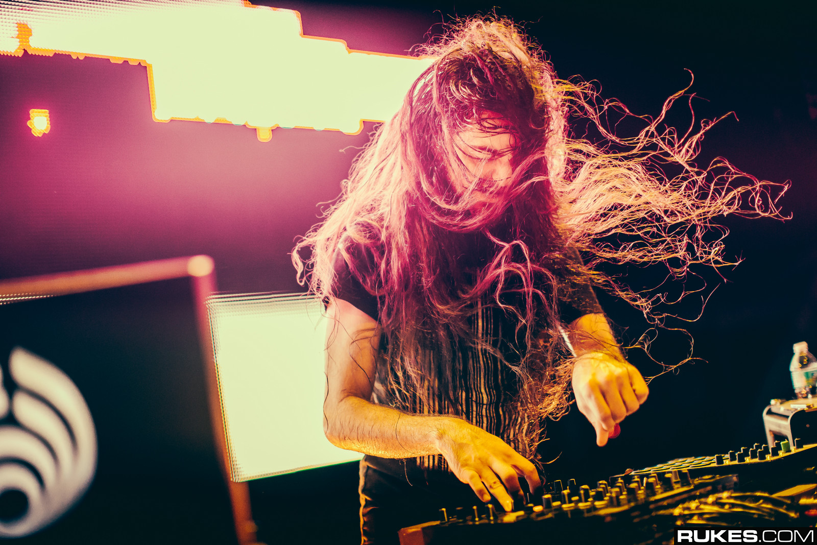 Press photograph of Bassnectar